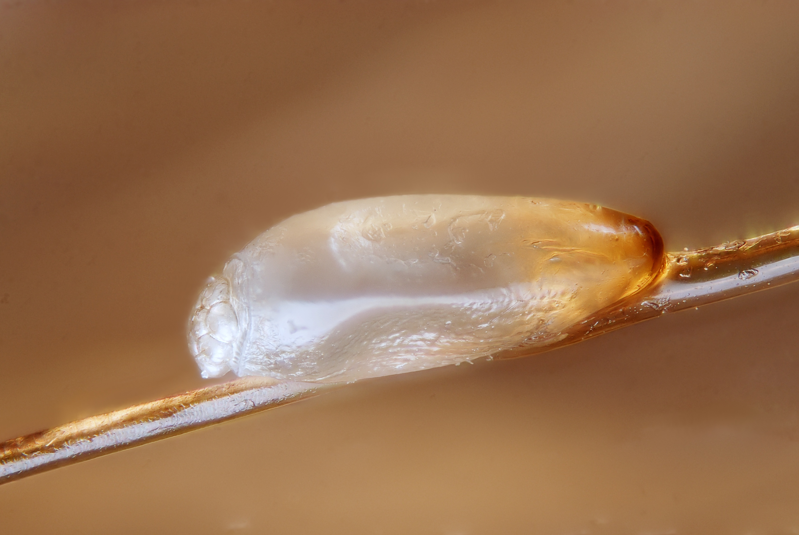 Egg (nit) of the head louse (Pediculus humanus capitis) on a hair. The picture was taken after an anti-lice treatment (Oxyphthirine - a substance based on Triglycerid producing a kind of film at the surface of the eggs and lice that induce asphyxia). This egg is therefore dead and its aspect can be slightly different from an alive egg. It seems to be slightly deshydrated. keywords : louse lice Anoplura Phthiraptera egg ovum nit lente pou poux kopflaus hoofdluis piojo parasite blood sucking ectoparasite Belgium Scale : egg length= 0.57 mm Technical settings : - focus stack of 42 images - microscope objective (Nikon achromatic 10x 160/0.25) on bellow (160 mm extension)